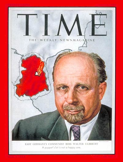 Walter Ulbricht on Time magazine cover, 1953.